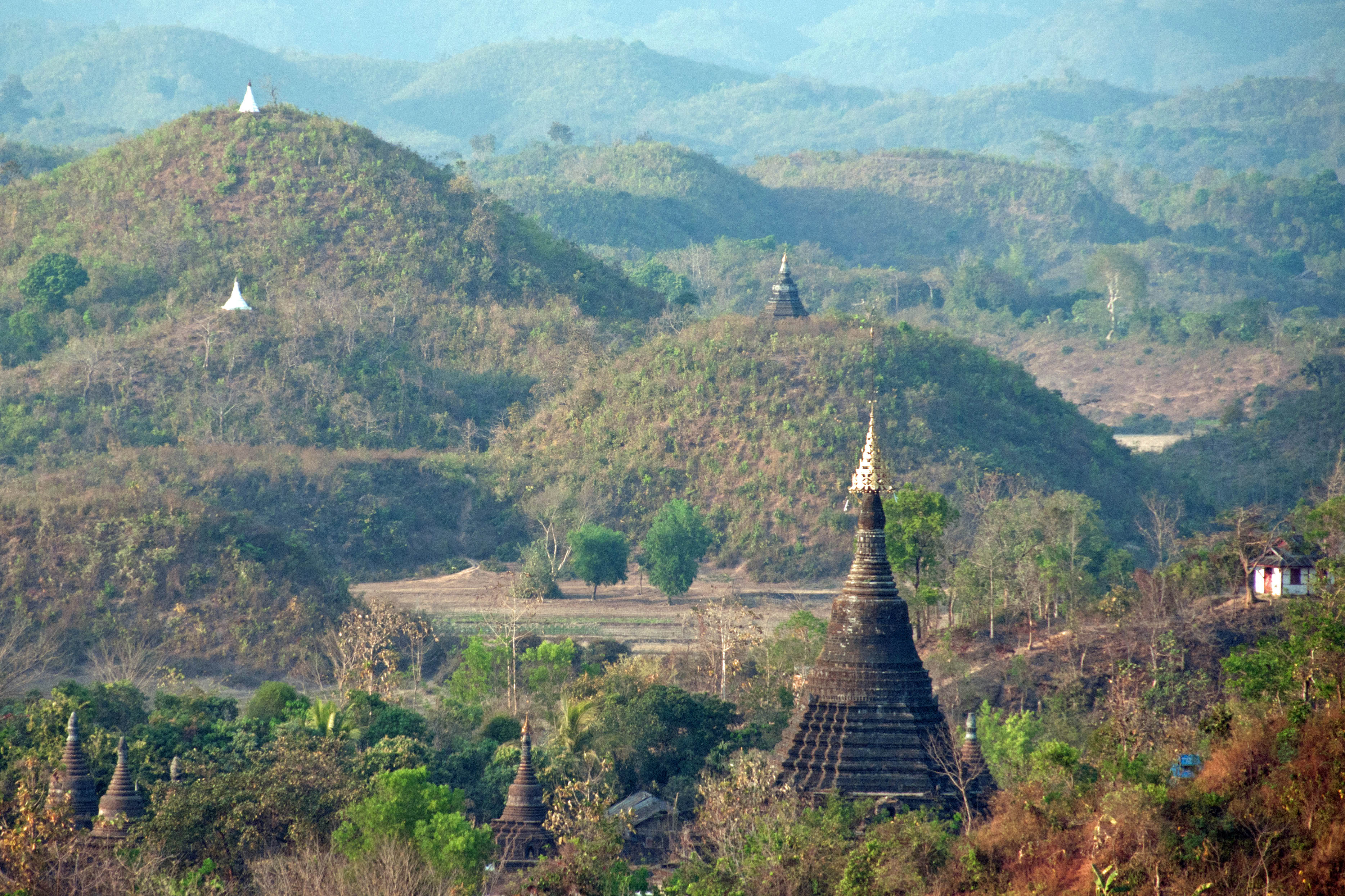 Scenery of Myauk U countryside